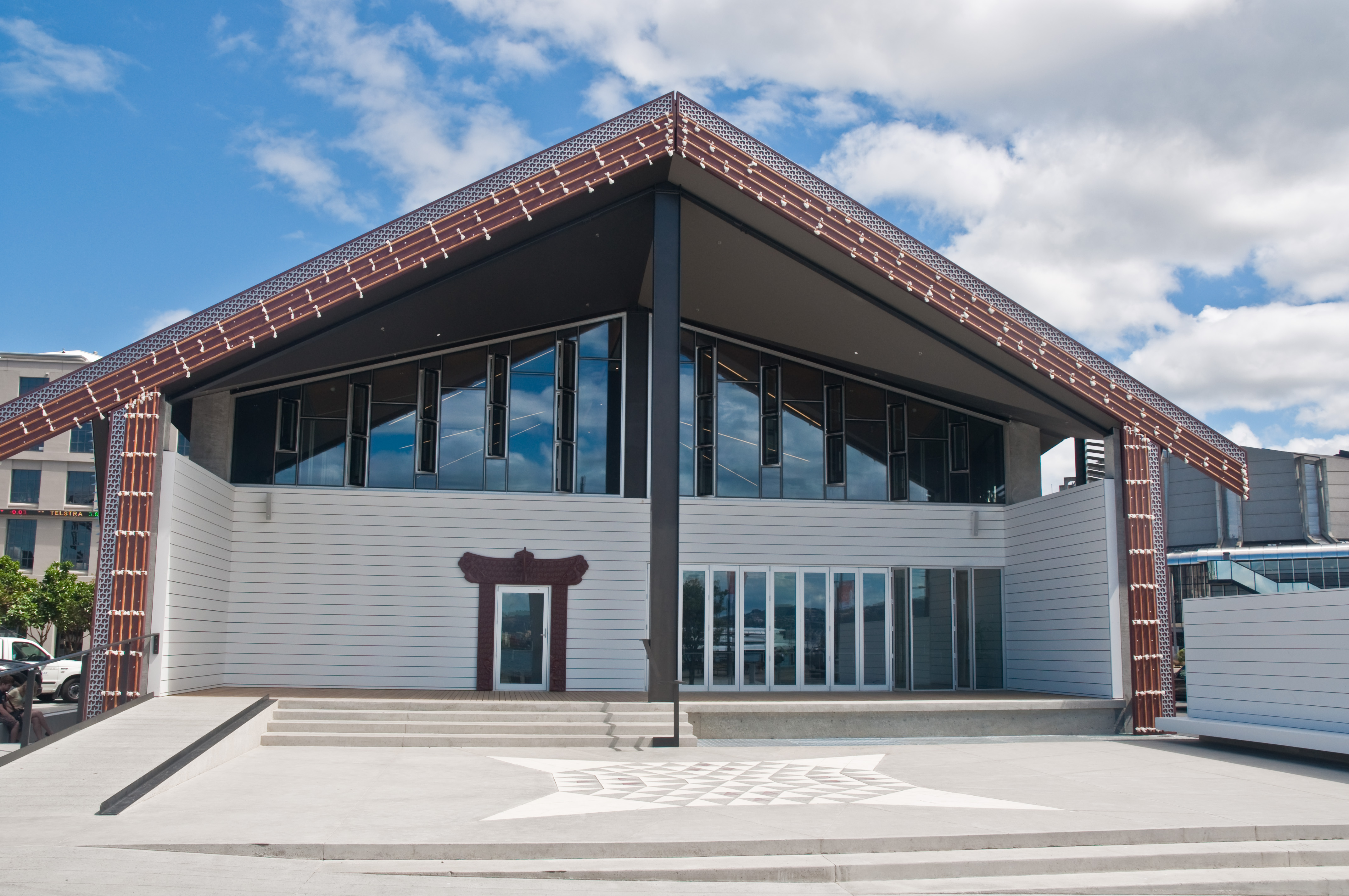 Whare Waka, Wellington, New Zealand, Feb. 2011